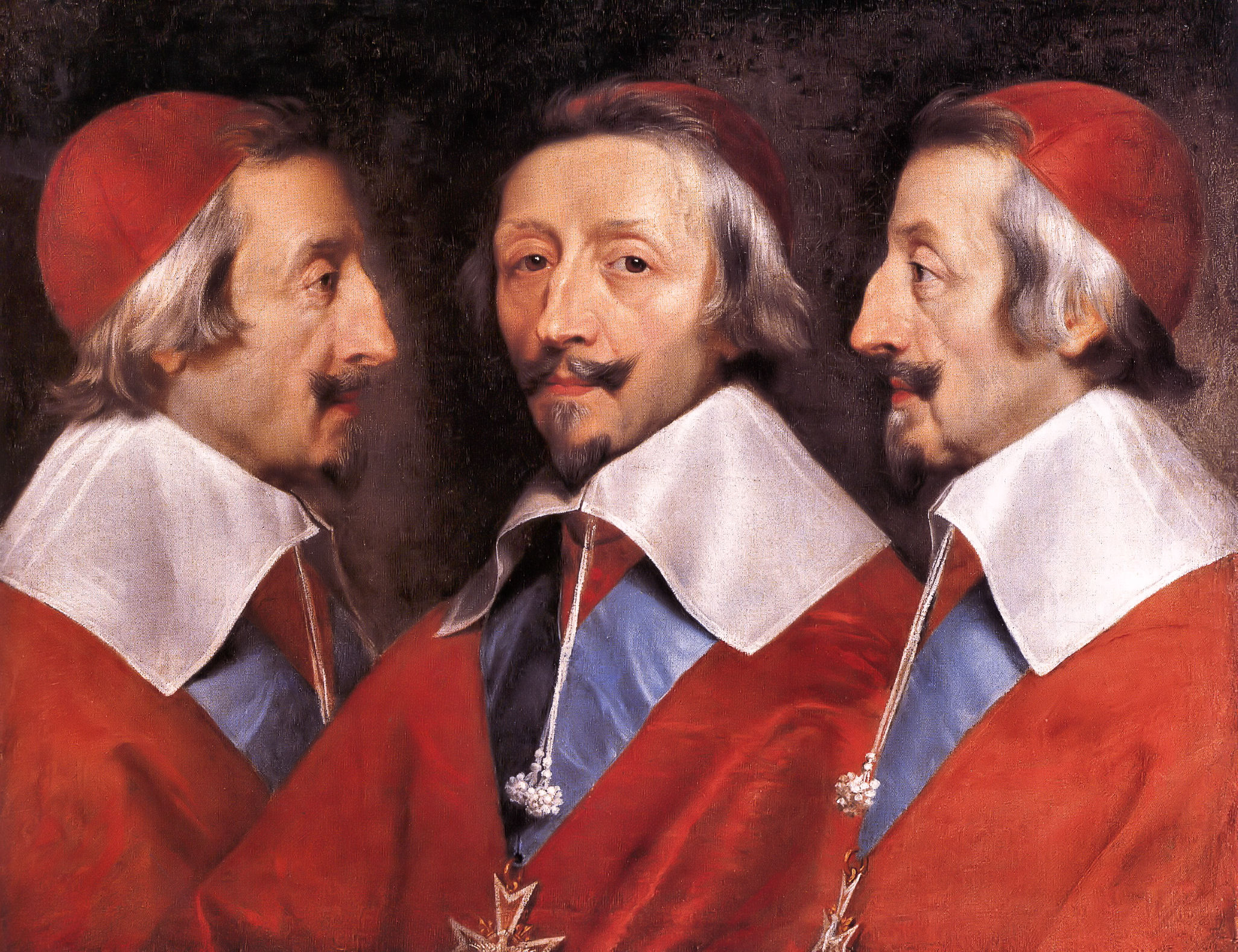 Armand-Jean du Plessis, Duc and Cardinal de Richelieu (1585 - 1642), with the order of the Saint-Esprit. He became a cardinal in 1622 and Chief Minister of France.